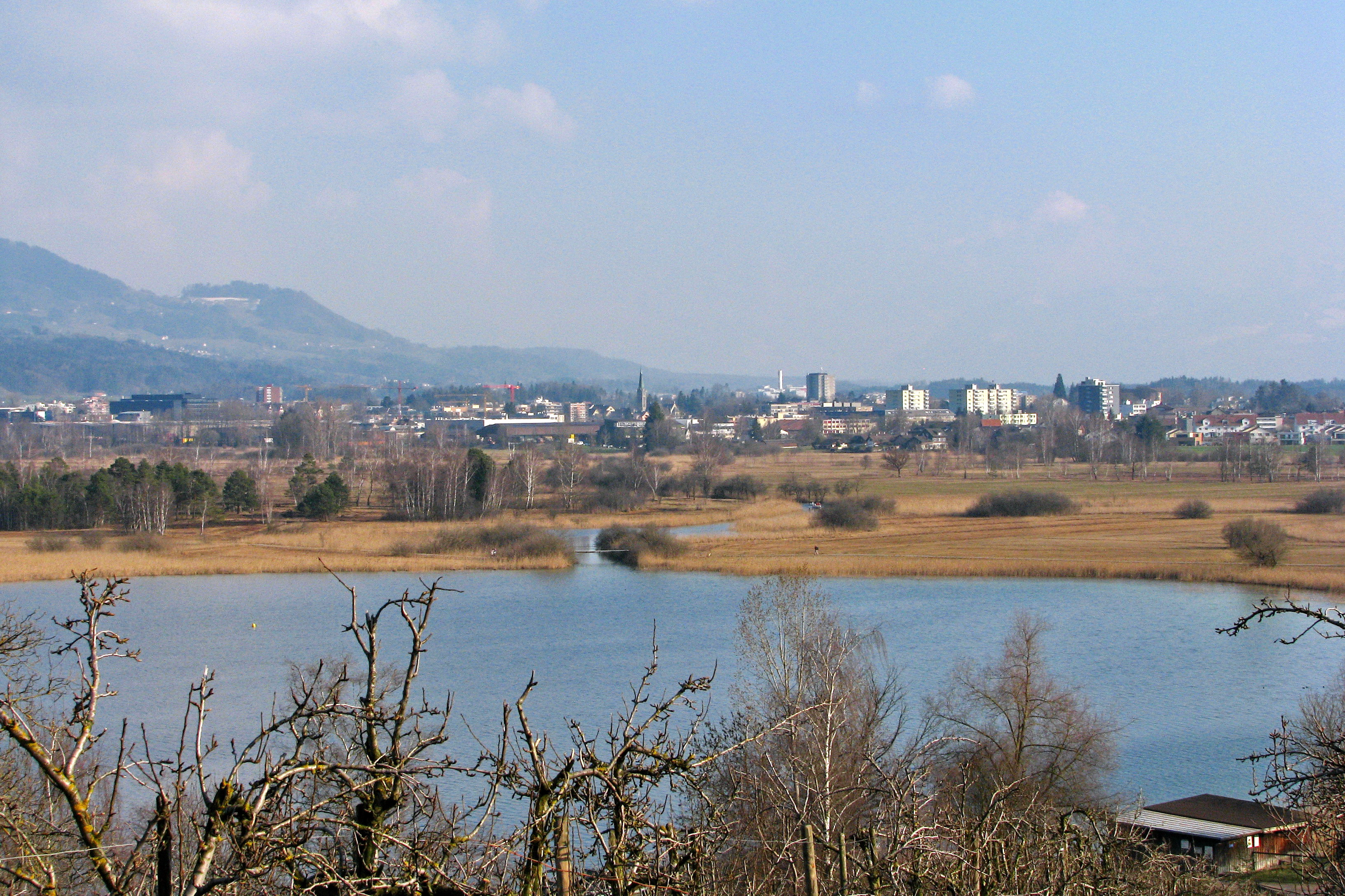 Pfäffikersee (Lake Pfäffikon), Wetzikon, Aabach and Robenhuserriet (to the right), as seen from Seegräben, Bachtel-Hasenstrick to the left and Alps of Glarus in the for background.